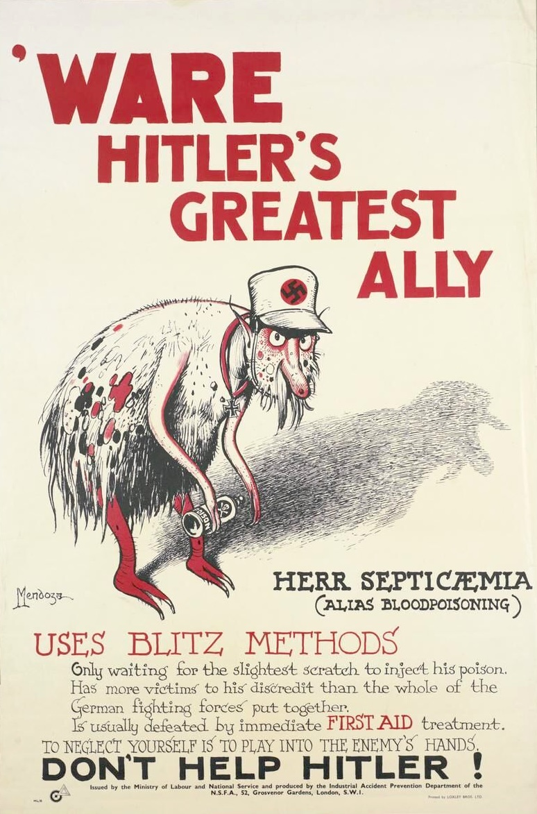 ware Hitler's Greatest Ally whole: the image is placed in the central third. The title and text are separate and positioned in the upper third and lower third, in red and in black. All set against a white background. image: a full-length depiction of a grotesque looking rat-like creature, personifying septicaemia. He carries a spray can marked 'Poison', and wears a German Iron Cross and a cap decorated with a Nazi swastika. text: 'WARE HITLER'S GREATEST ALLY POISON Mendoza HERR SEPTICÆMIA (ALIAS BLOODPOISONING) USES BLITZ METHODS Only waiting for the slightest scratch to inject his poison. Has more victims to his discredit than the whole of the German fighting forces put together. Is usually defeated by immediate FIRST AID treatment. TO NEGLECT YOURSELF IS TO PLAY INTO THE ENEMY'S HANDS. DON'T HELP HITLER! Issued by the Ministry of Labour and National Service and produced by the Industrial Accident Prevention Department of the N.S.F.A., 52, Grosvenor Gardens, London, S.W.1. ML/8 Printed by LOXLEY BROS. LTD.